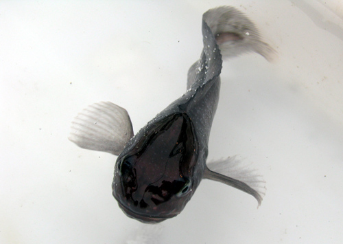 Gelatinous snailfish (aka gelatinous seasnail) (Liparis fabricii). Photo taken during the 2008 Beaufort Sea Survey.